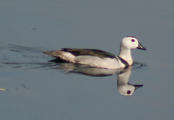 Cotton Pgymy Goose (Nettapus coromandelianus) in Kolkata, West Bengal, India.